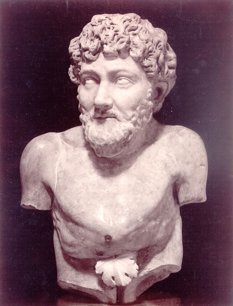 Statue of Aesop, Art Collection of Villa Albani, Roma